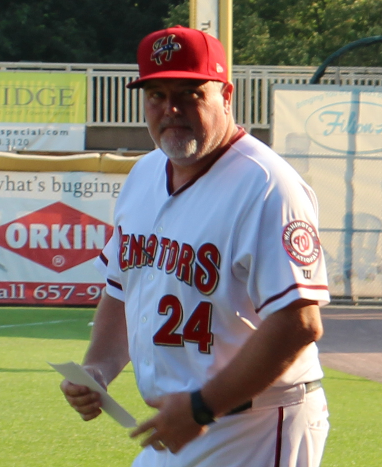 MWR Susquehanna and NSA Mechanicsburg joined forces and hosted a very special Military Night at the Harrisburg Senators Arena on Jul. 19, 2019. This night featured a special Military Opening Ceremony, Military Service Members throwing the Ceremonial First Pitches, the Senators Baseball Game, MARVEL Super Hero Day for the kids, and post-game fireworks! Pre-game ceremonies began at 6:30 p.m. leading up to the game at 7 p.m. Active Duty Military Service Members received one (1) free ticket to attend and all other DoD civilians, Reservists, National Guard, retired military personnel, and family members purchased discounted tickets for $9 each.